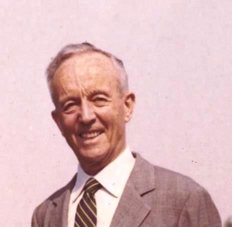 Franco Jacazio